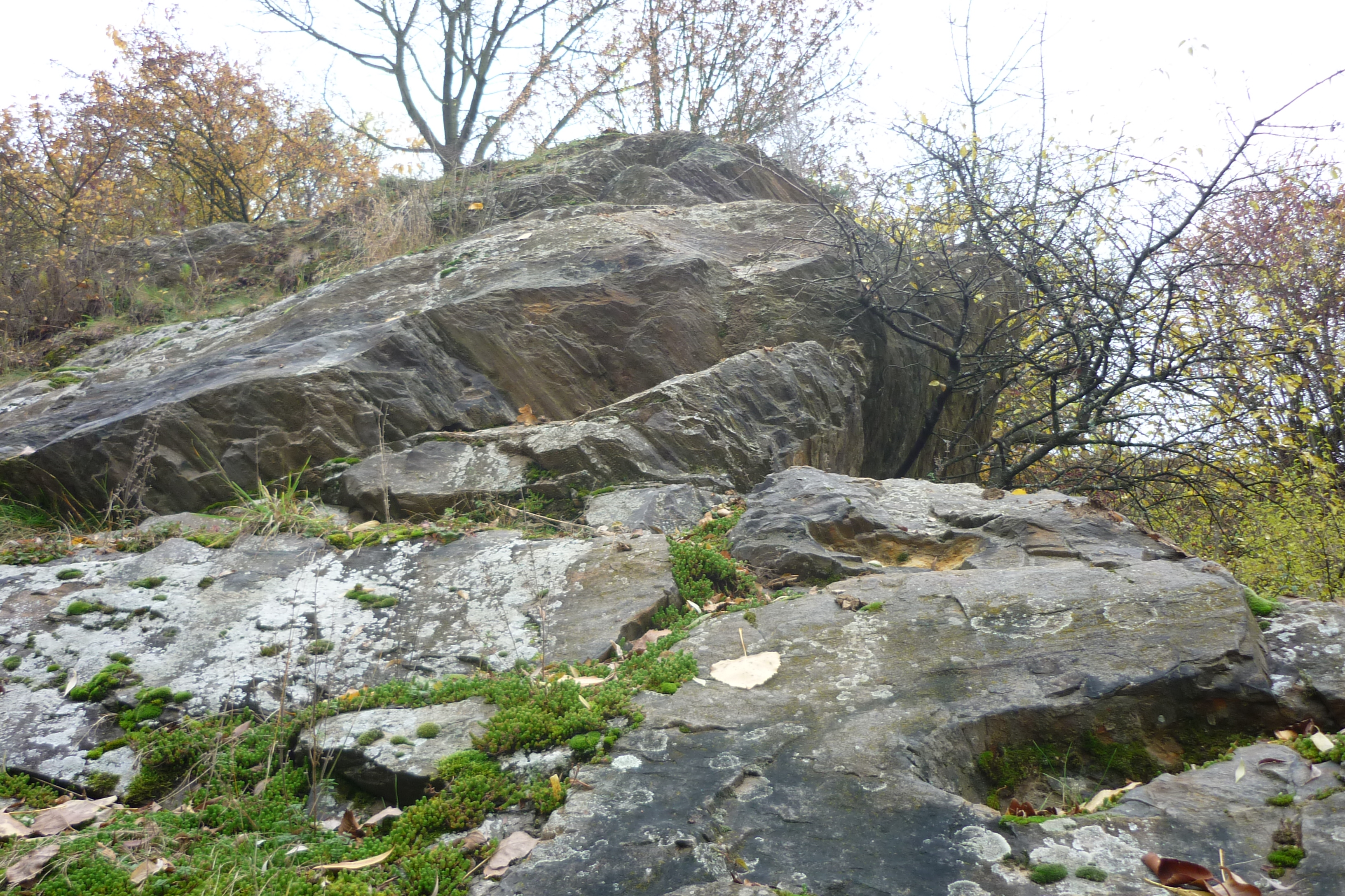 Stone guarry near Starkoc in natural monument Starkočský lom in Kutná Hora District, Czech Republic